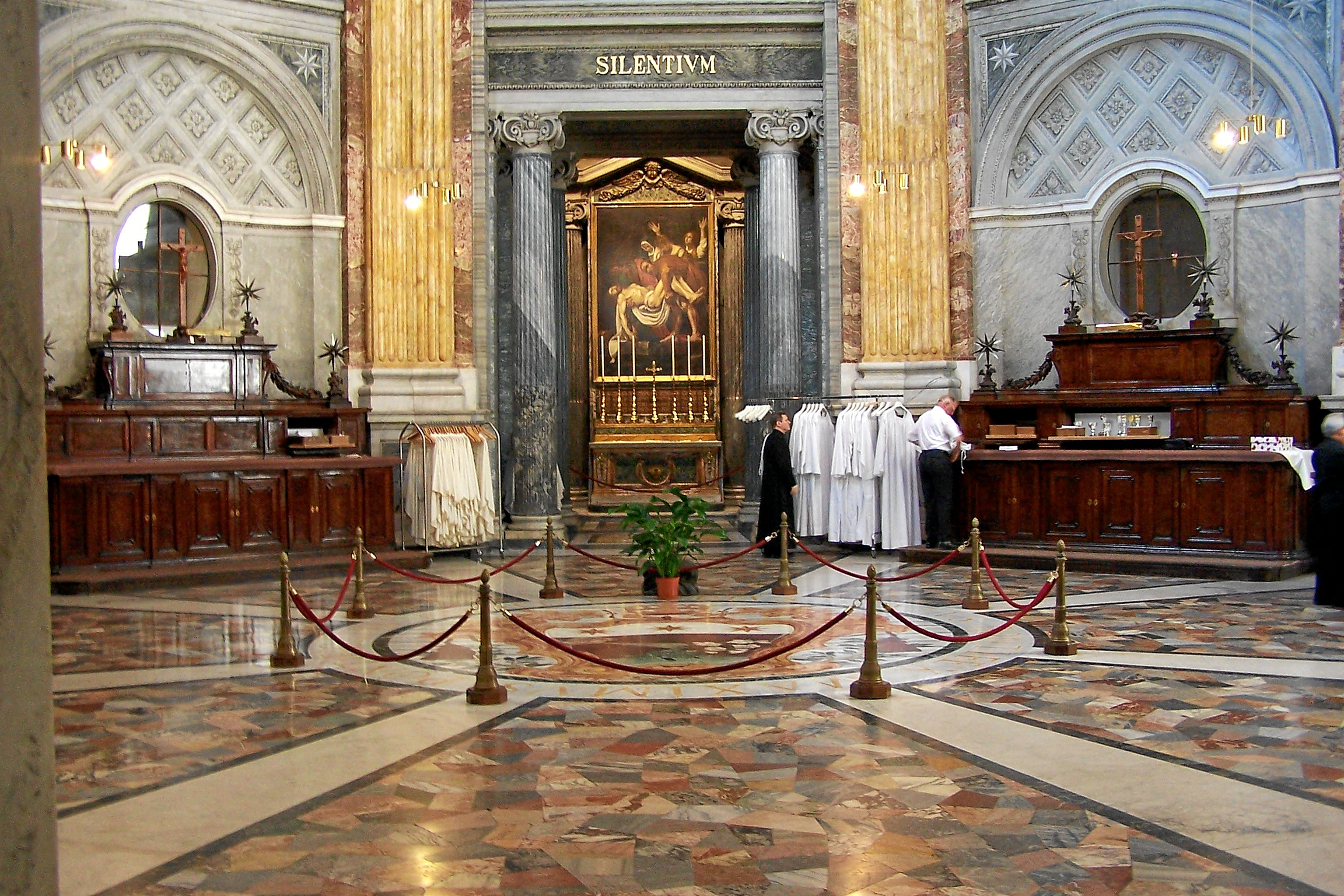 Sakristei des Petersdomes, Sacristy of St. Peter's Basilica, Roma